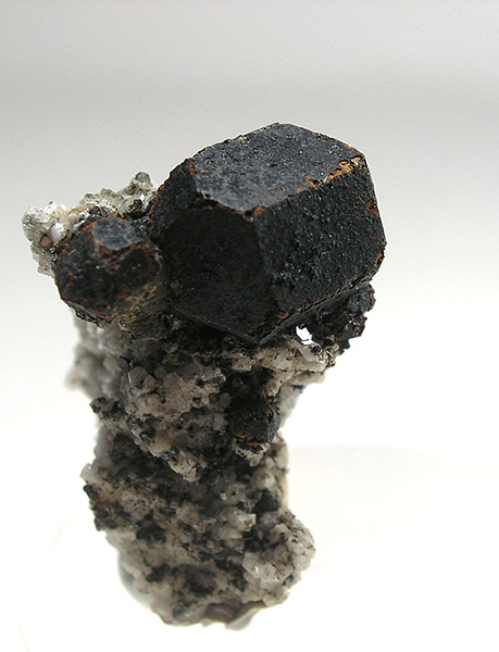 Cafarsite Locality: Wanni glacier - Scherbadung Mt. (Cervandone Mt.) area, Kriegalp Valley (Chriegalp Valley), Binn Valley, Wallis (Valais), Switzerland (Locality at ) Size: thumbnail, 2.5 x 1.6 x 1.5 cm Cafarsite A fat, equant, very fine 1.1 cm crystal perched on a pedestal of matrix - killer thumbnail! 2.5 x 1.6 x 1.5 cm